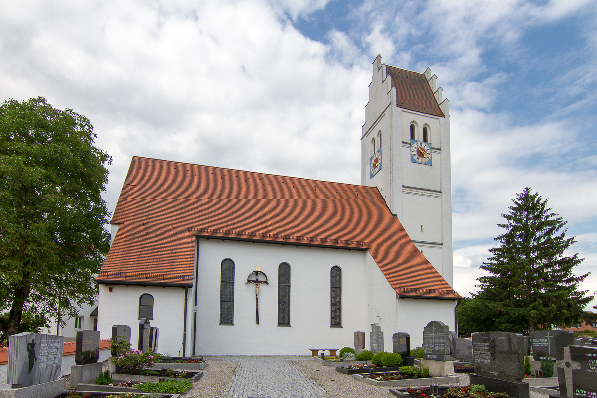 This is a photograph of an architectural monument.